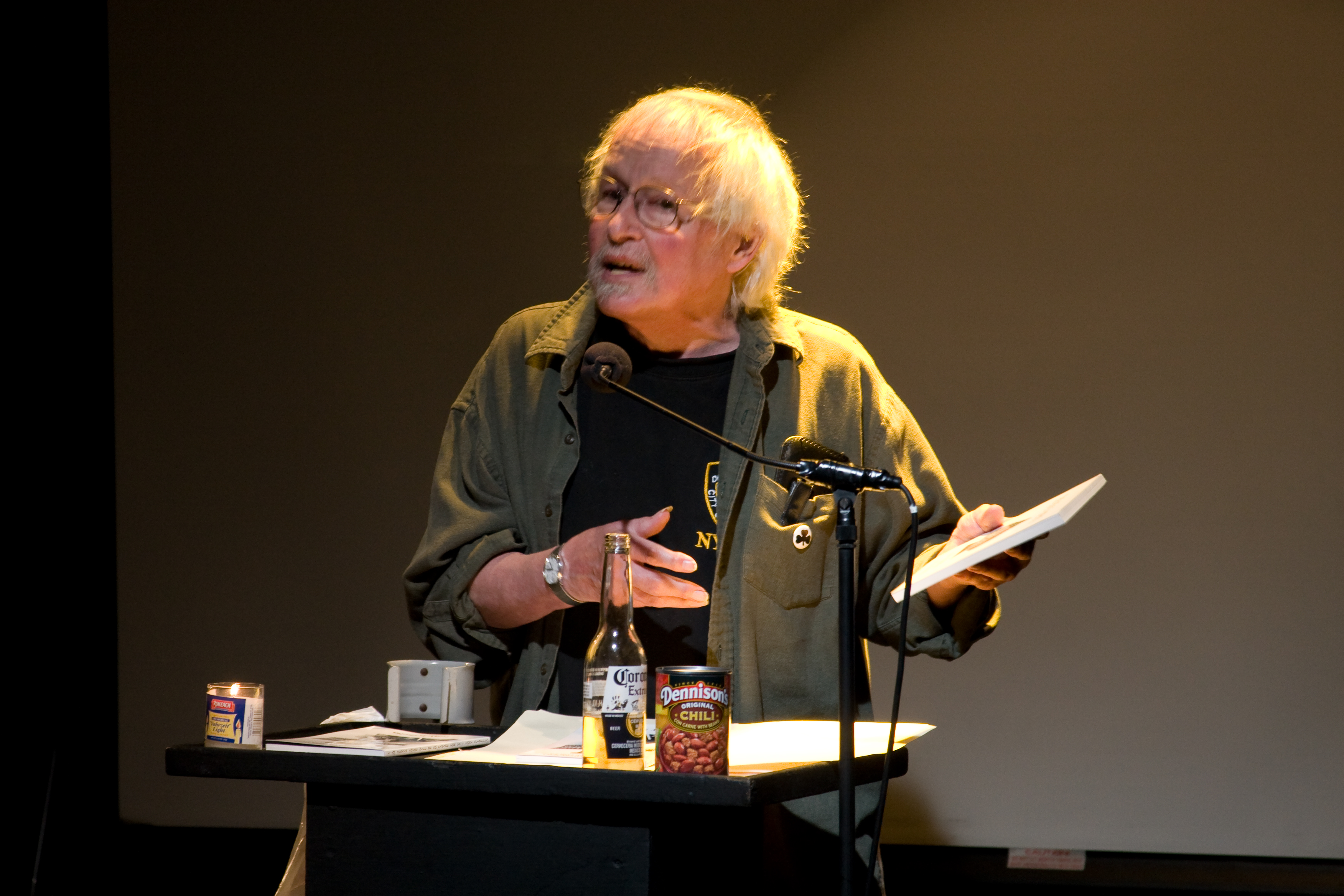 David Meltzer speaking at Beyond Baroque Literary Arts Center, Los Angeles.